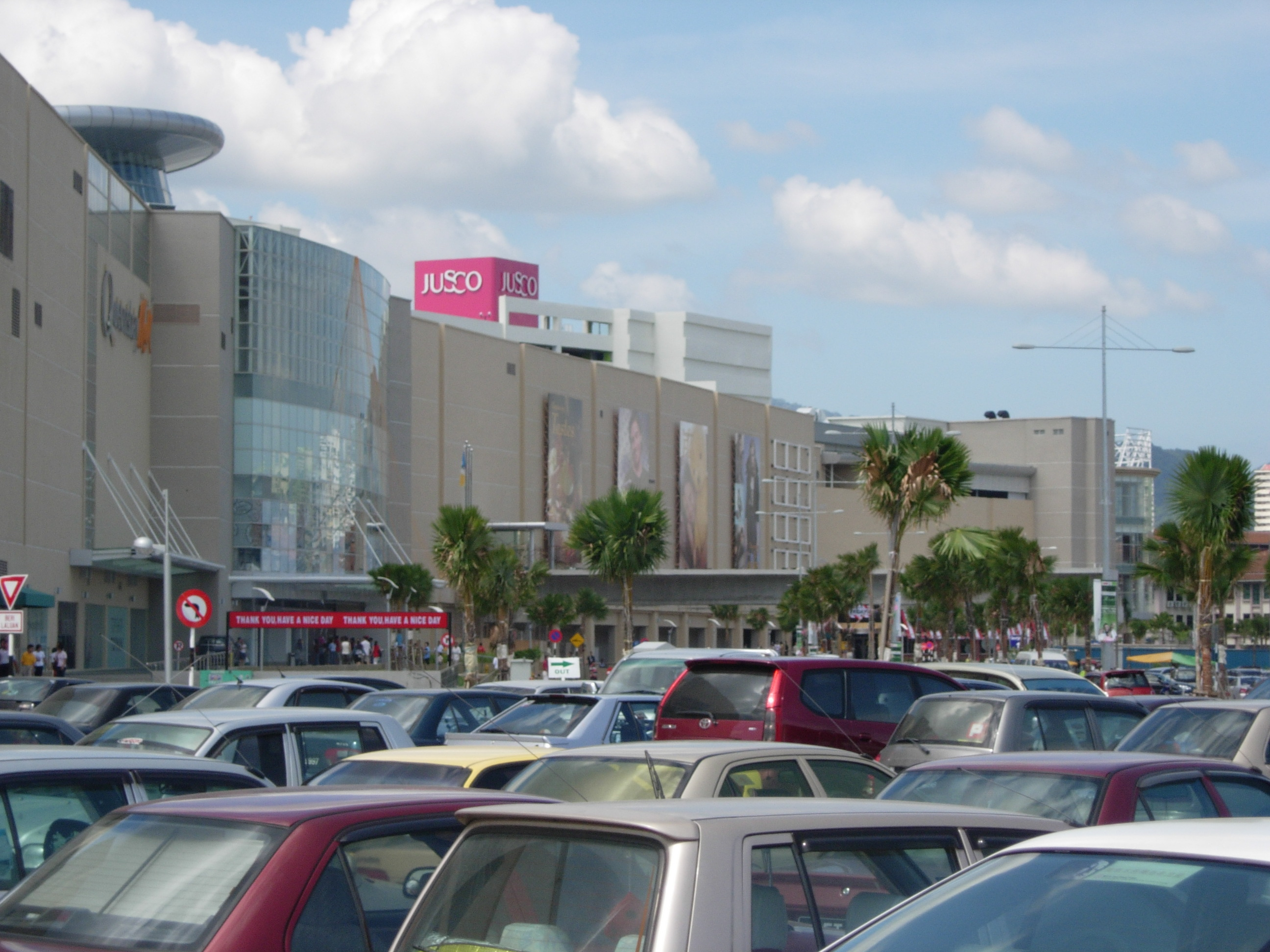 Exterior of Queensbay Mall, Bayan Lepas, Penang, Malaysia.